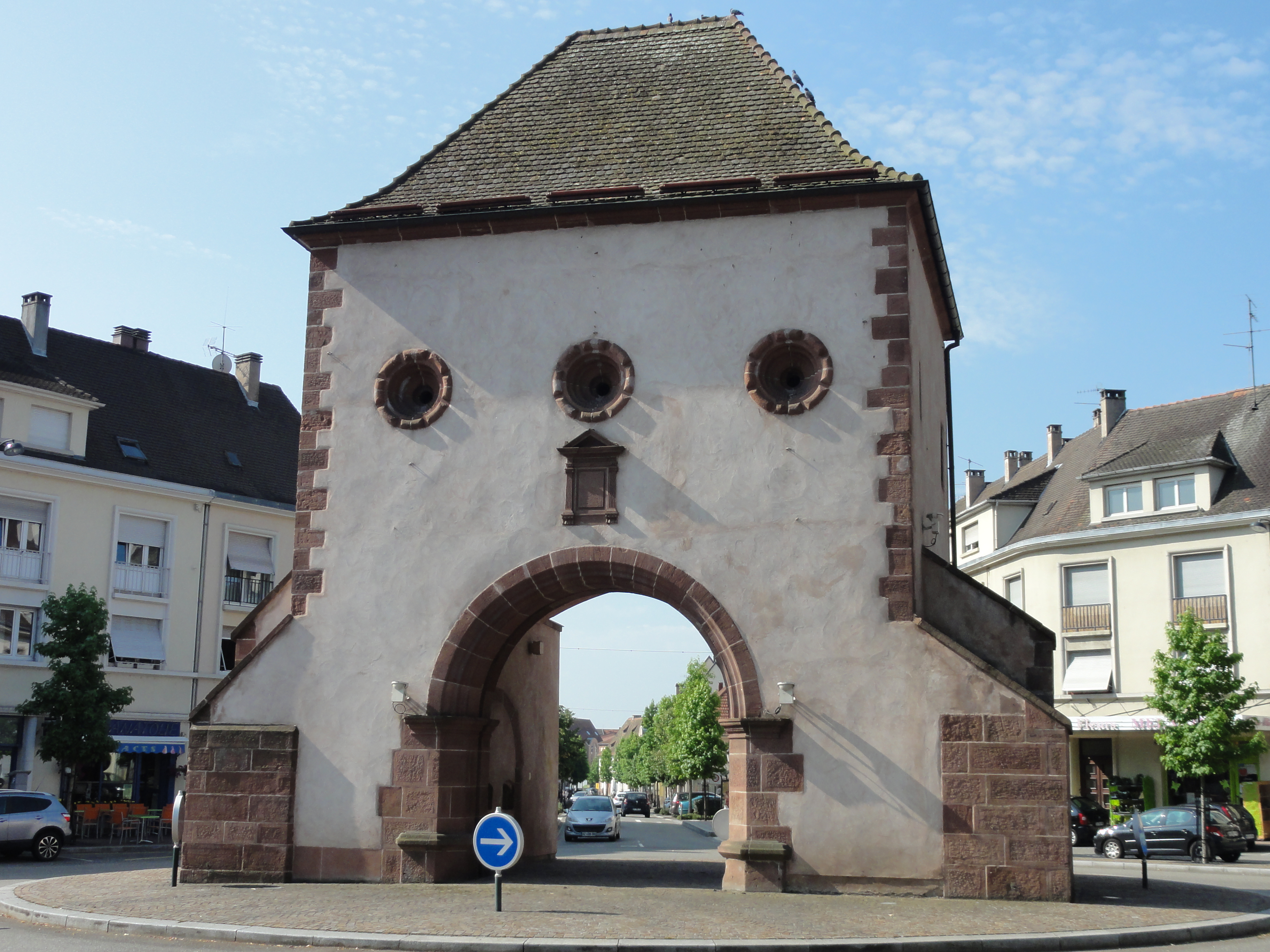 Alsace, Bas-Rhin, Haguenau, Porte de Wissembourg (XIVe-XVIe): It is indexed in the Base Mérimée, a database of architectural heritage maintained by the French Ministry of Culture, under the references PA00084739 and IA00061891.